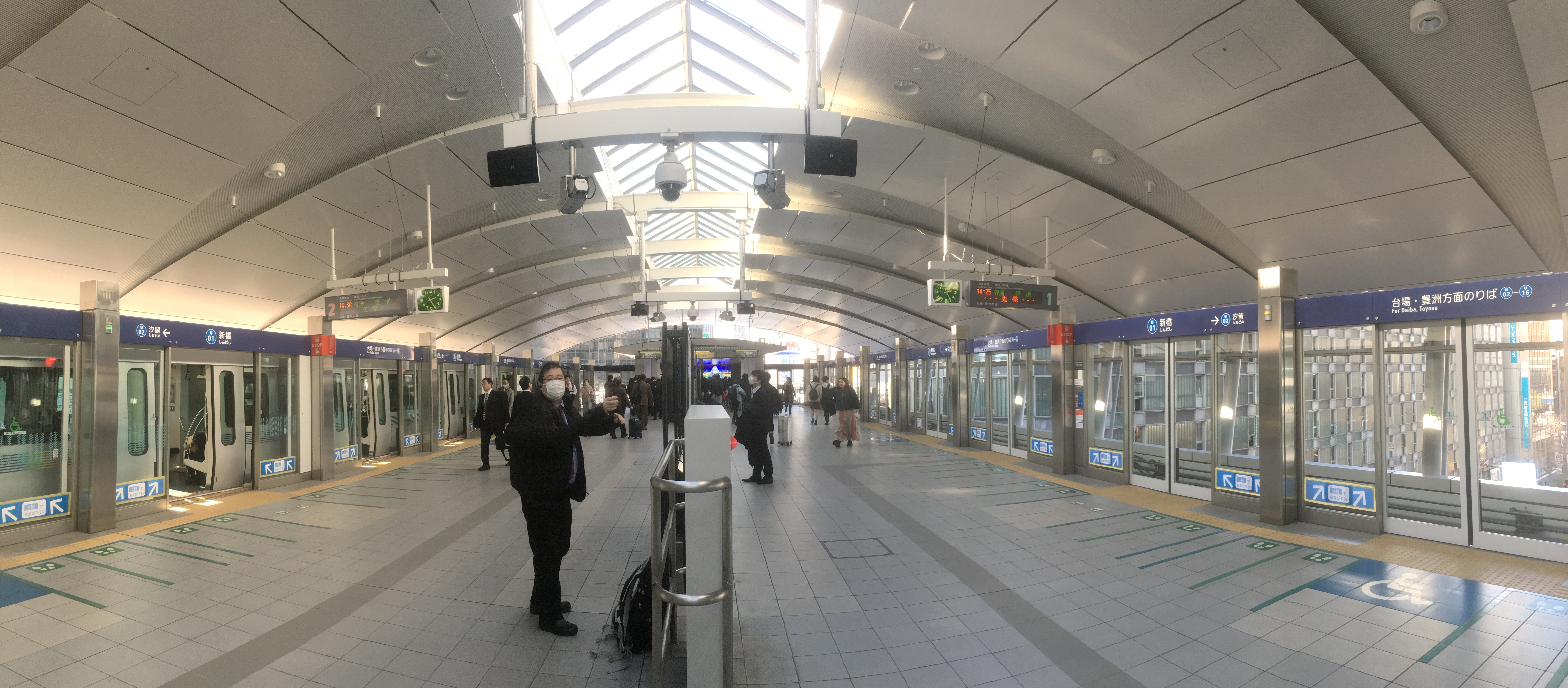 新橋駅のホーム (Shimbashi Station platforms)